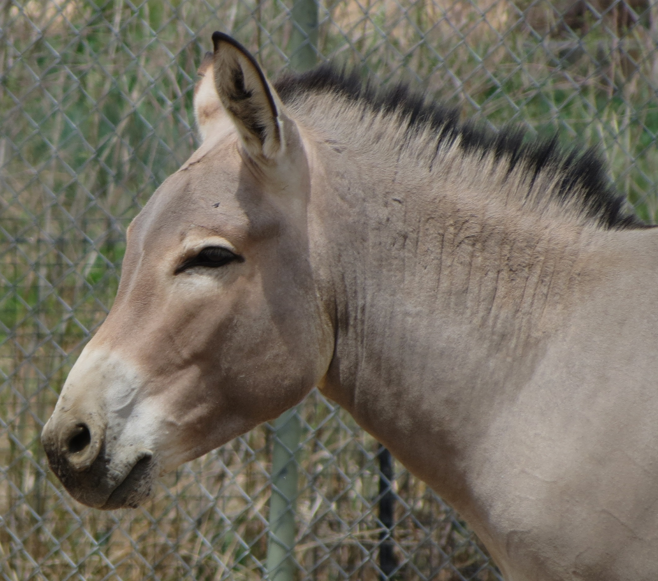 Somali wild ass closeup, Denver Zoo, Colorado / 2013